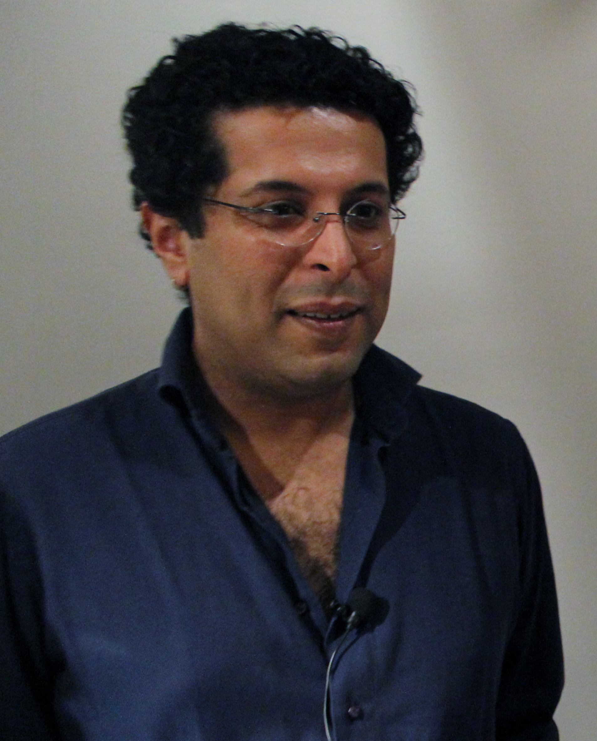 naman ahuja in the national museum, new delhi